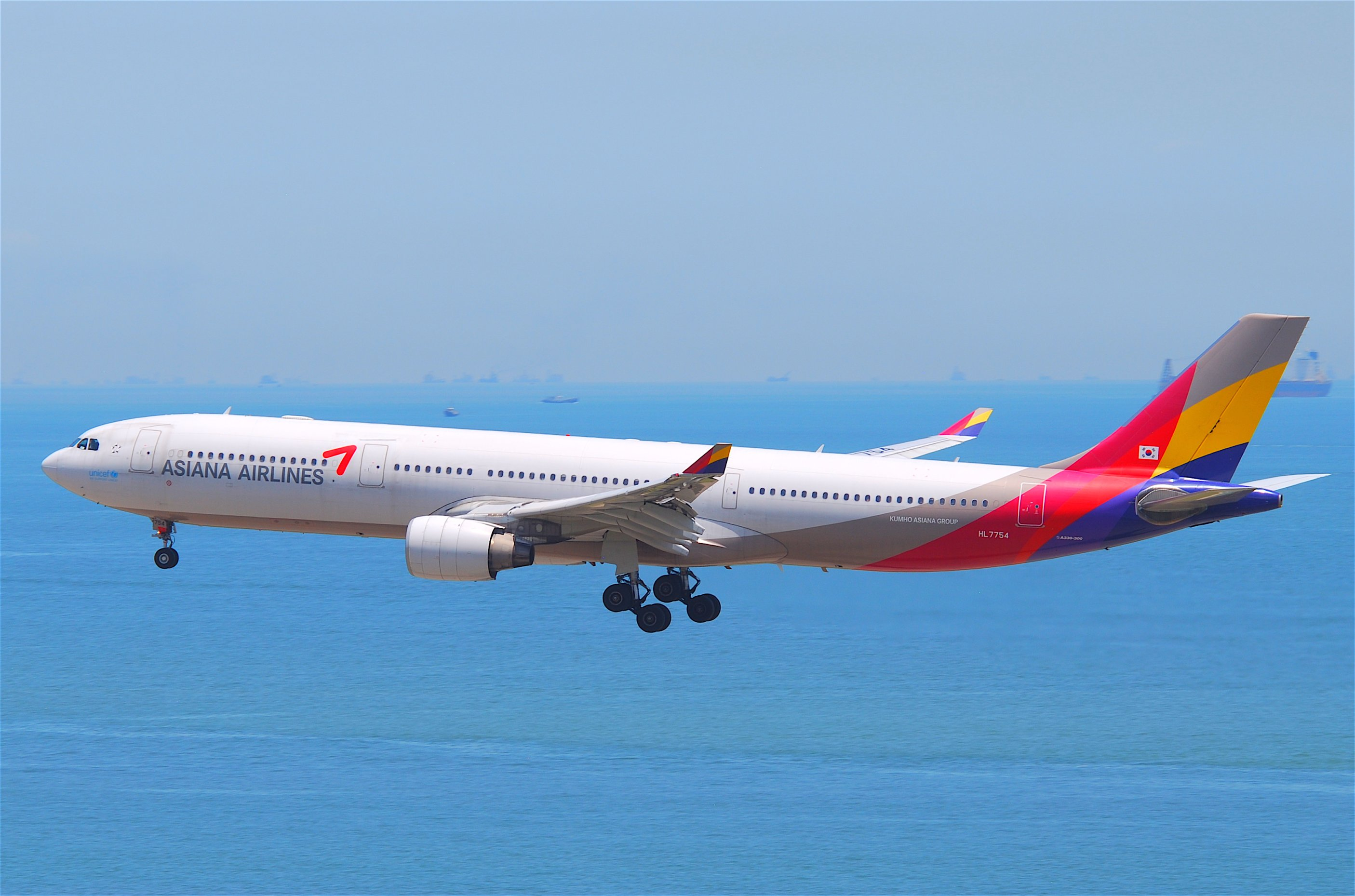 Asiana Airlines Airbus A330-300; HL7754@HKG;04.08.2011/615gm